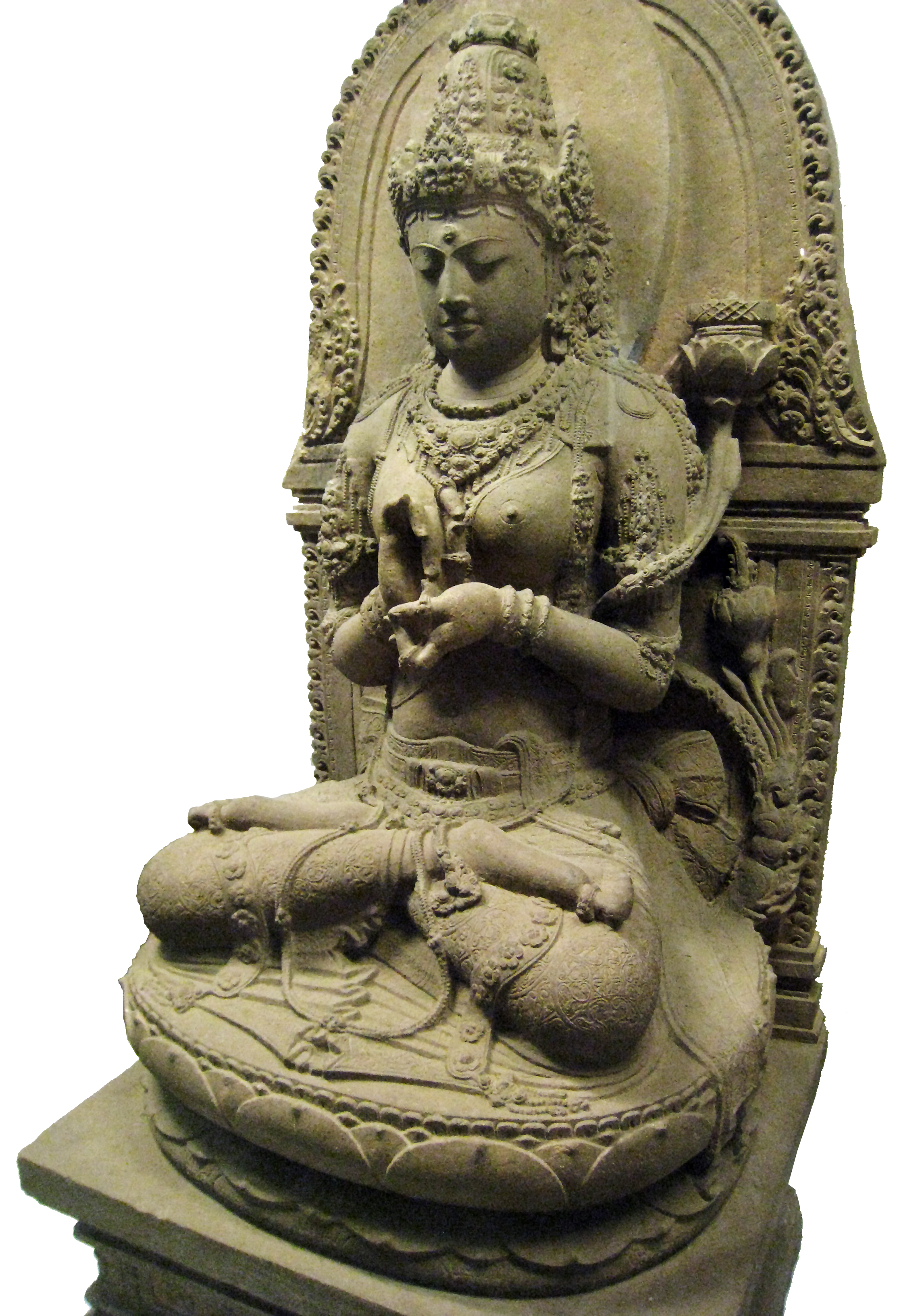 Bodhisattvadevi (female bodhisattva) Prajnaparamita; the buddhist goddess of transcendental wisdom, personified in a statue from 13th century Singhasari East Javanese art. The statue was discovered in Cungkup Putri ruins near Singhasari temple, Singhasari, East Java. According to local beliefs, the statue was made in Ken Dedes likeness. Probably served as her mortuary deified statue. The Prajnaparamita was first seen in 1818 or 1819 by the Dutch colonial official D. Monnereau. In 1820 Monnereau gave the statue to C.G.C. Reinwardt, who took it to Holland where it eventually came to be deposited in the Rijksmuseum voor Volkenkunde in Leiden. Prajnaparamita is a goddess of high standing in Mahayana tantric Buddhism; she is considered the sakti, or consort, of the highest Buddha (in the Buddhist pantheon known as vajradhara), she symbolizes perfect knowledge. As with many statues from East Java, this one is thought to be the “portrait statue” of Rajapatni Gayatri queen, the wife of King Kertarajasa (the first King of Majapahit Kingdom), grandmother of Hayam Wuruk. In January 1978 the Rijksmuseum voor Volkenkunde (National Museum of Ethnology) returned the statue to Indonesia, where it was placed in the Museum Nasional Indonesia. Today the statue is displayed in the second floor of National Museum of Indonesia, Jakarta.